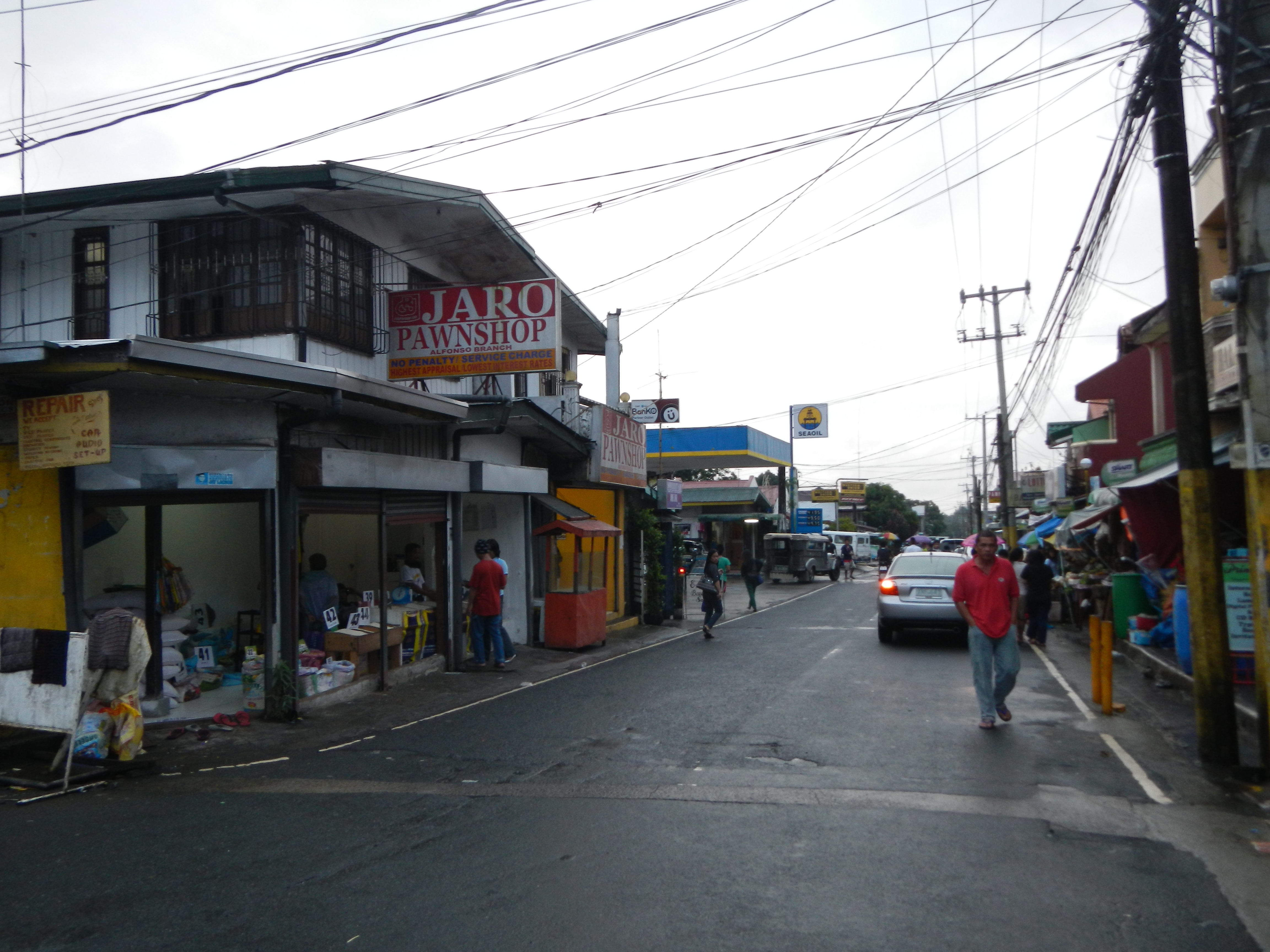 Upload Wizard -- (general description of landmarkds, town, church, bad weather, going to dark, sunset conditions) - of - Alfonso, Cavite[1] (a first class municipality in the province of Cavite, Philippines, 2010 Philippine census, population of 48,567 people in an area of 70.0 square kilometers politically subdivided into 32 barangays.[2] Alfonso [3] Coordinates: 14°8'32"N 120°51'27"E [4] [5] Matagbak Coordinates: 14°7'24"N 120°50'2"E) - Centro, Town Proper, downtown, central bus and jeep stop, terminal, crossing, junction, commercial buildings, including San Juan Nepomuceno Church Arch, -- Cavite Batangas Transport Service Cooperative Bus, ALFTODA terminal of jeeps, Alfonso Central Elementary School, Welcome Arch of Poblacion V, Purok Uno sign, Sacred Heart School of Cavite, Sign towards General Emilio Aguinaldo and Tagaytay, Cavite, Welcome Sign of Barangay Poblacion in front of the Covered Court, Nazareth Institute of Alfonso van, Community Bank, Rural Bank of Alfonso, Inc., Skywards Convenience Store, Libertad st., Sea Oil gas station, among others in Centro, Town Proper of - Alfonso, Cavite[6].